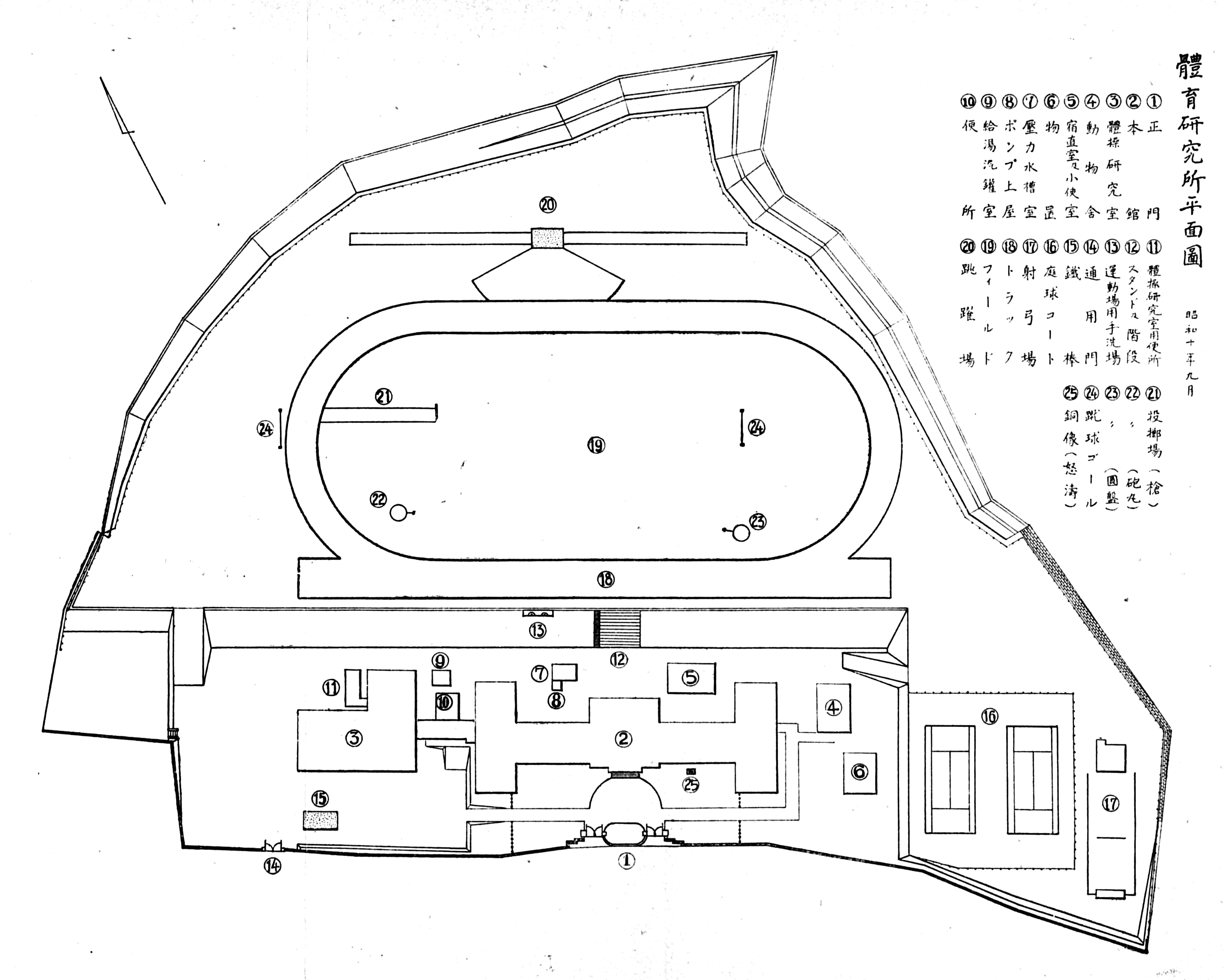 Site Drawing for Gov. Inst. for Research in Physical Education, Japan 1: main gate, 2: main bldg., 3: gym, 4: animal house, 5: janitor/nightwatch, 6: shed, 7: pressure tank, 8: pump, 9: boiler room, 10: lavatory, 11: lavatory for gym, 12: stand and stairs, 13: wash stand, 14: postern gate, 15: horizontal bar, 16: tennis court, 17: archery ground, 18: tracks, 19: field, 20. jump ground, 21: javelin ground, 22: shot-put ground, 23: discus ground, 24: football goals, 25: a statue